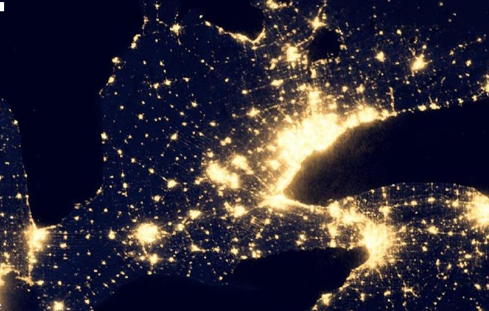 Map showing the lights from Southern Ontario as visible from space. Lake Simcoe can be seen to the north, Lake Ontario to the south. Detroit at the bottom left, Toronto and area is the large mass of yellowish light near the middle of the image. Cropped from the Google image, showing only the public domain image from NASA. (As of the upload date, the image is not available on the NASA website, due to the US Gov't shutdown.)